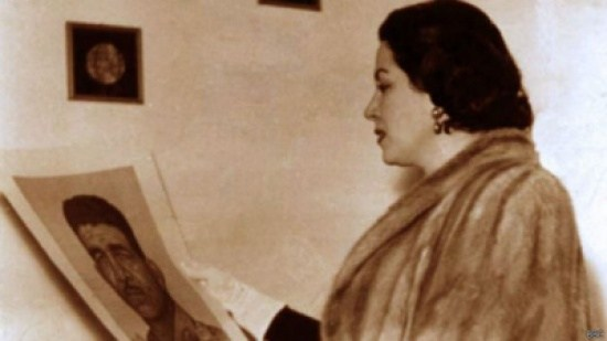 Laila Murad watching President Muhammed Naguib Photo circa 1953. For which Laila song Union - Order - Work was released in 1953.